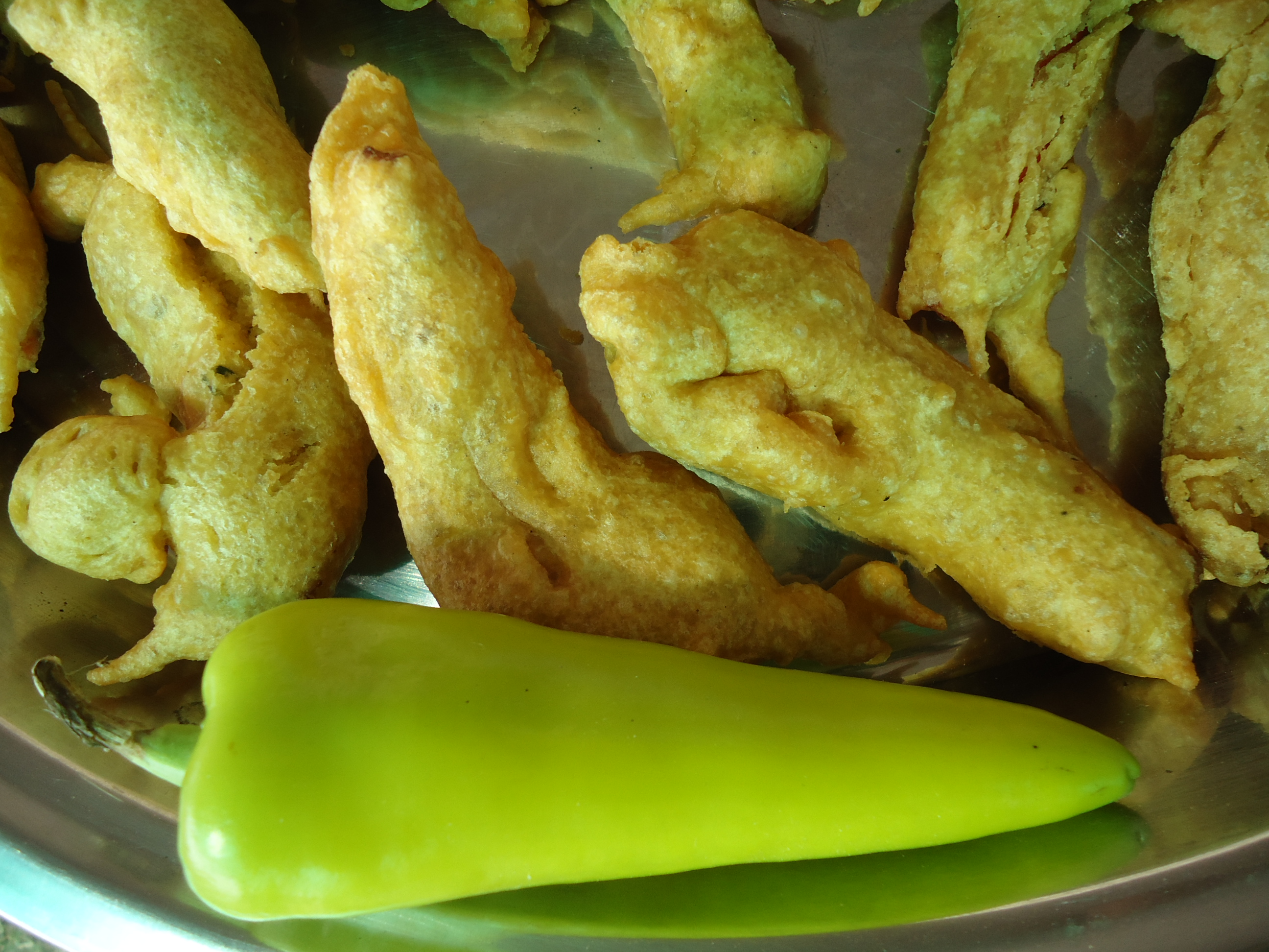 Chilli Bhaji and Green Chilli